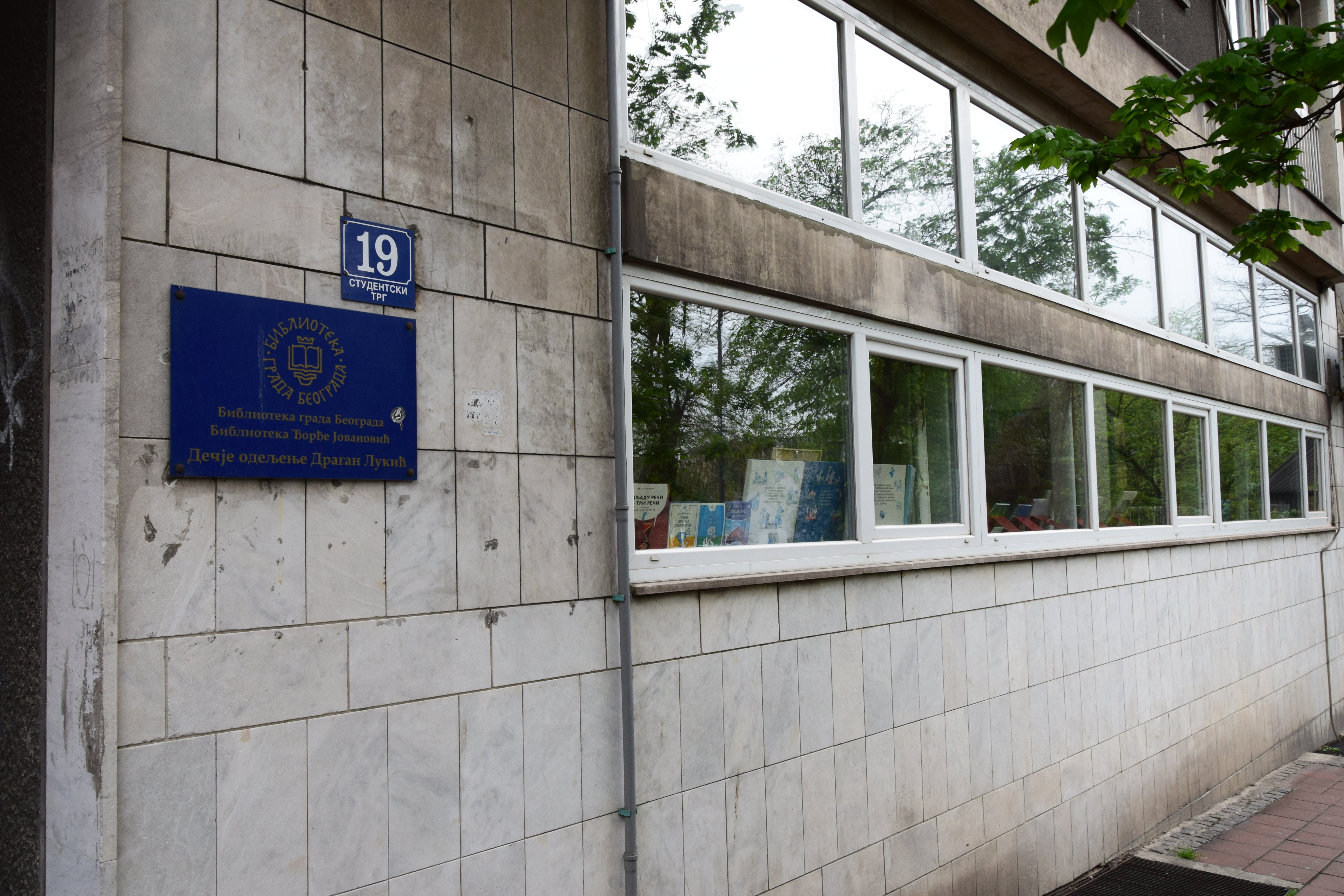 Children library "Dragan Lukić" in Belgrade, 19 Student Square